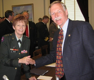 Congressman Vic Snyder is pictured here on April 7, 2005, with Major General Kathryn Frost, the highest ranking woman in the U.S. Army. Major General Frost is married to former Texas Congressman Martin Frost